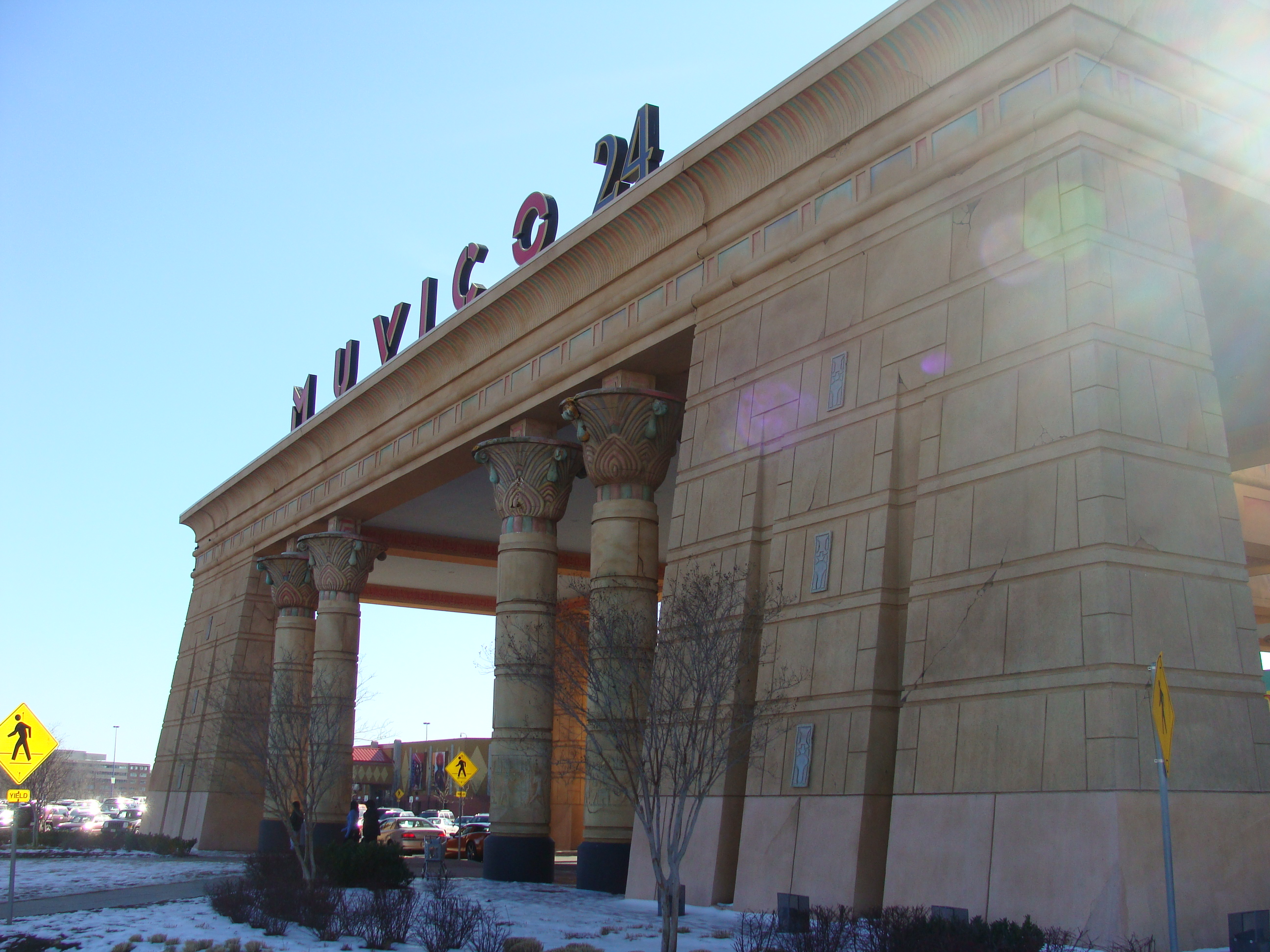 Front of the main entrance to the Muvico 24 at Arundel Mills Mall near Ft. Meade, MD